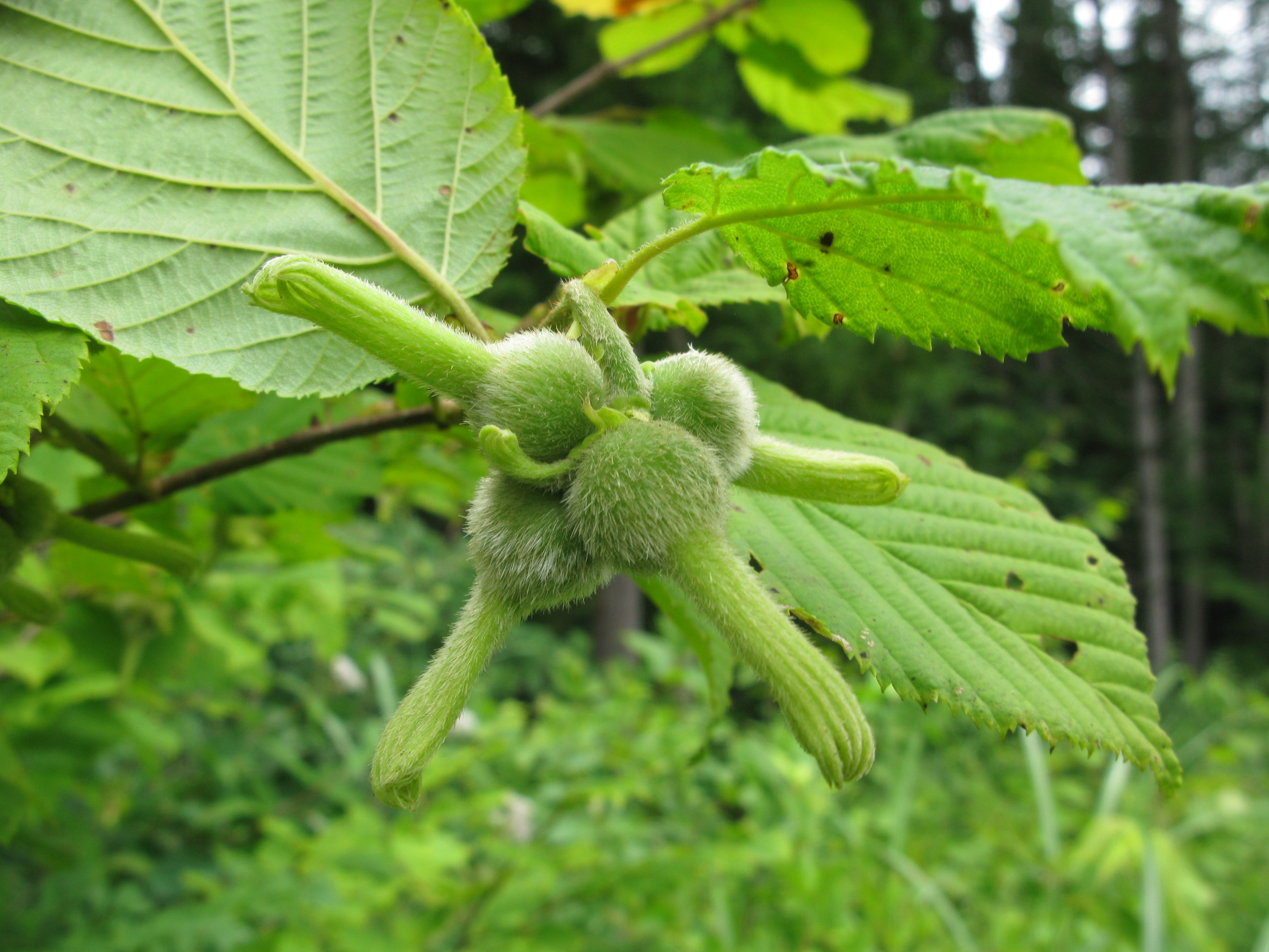 Corylus sieboldiana, Aizu area, Fukushima pref., Japan